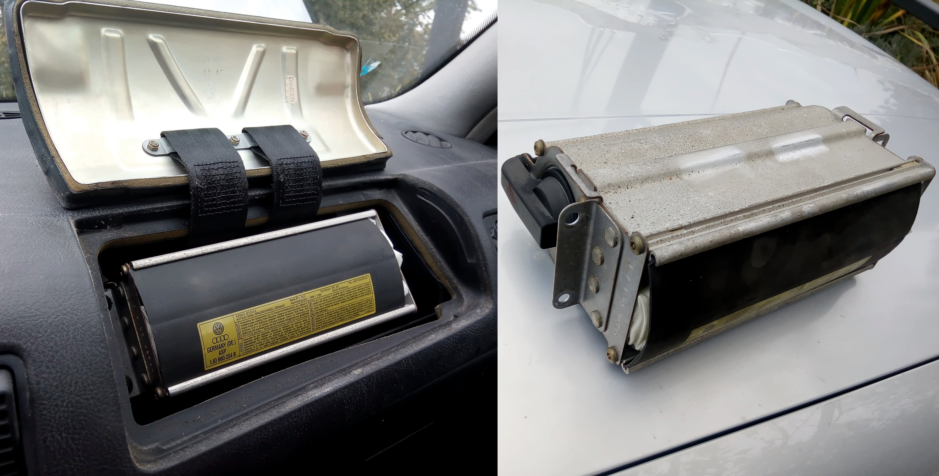 Passenger airbag, on the right you can see the disassembled airbag module, left mounted in its housing and with the raised door.